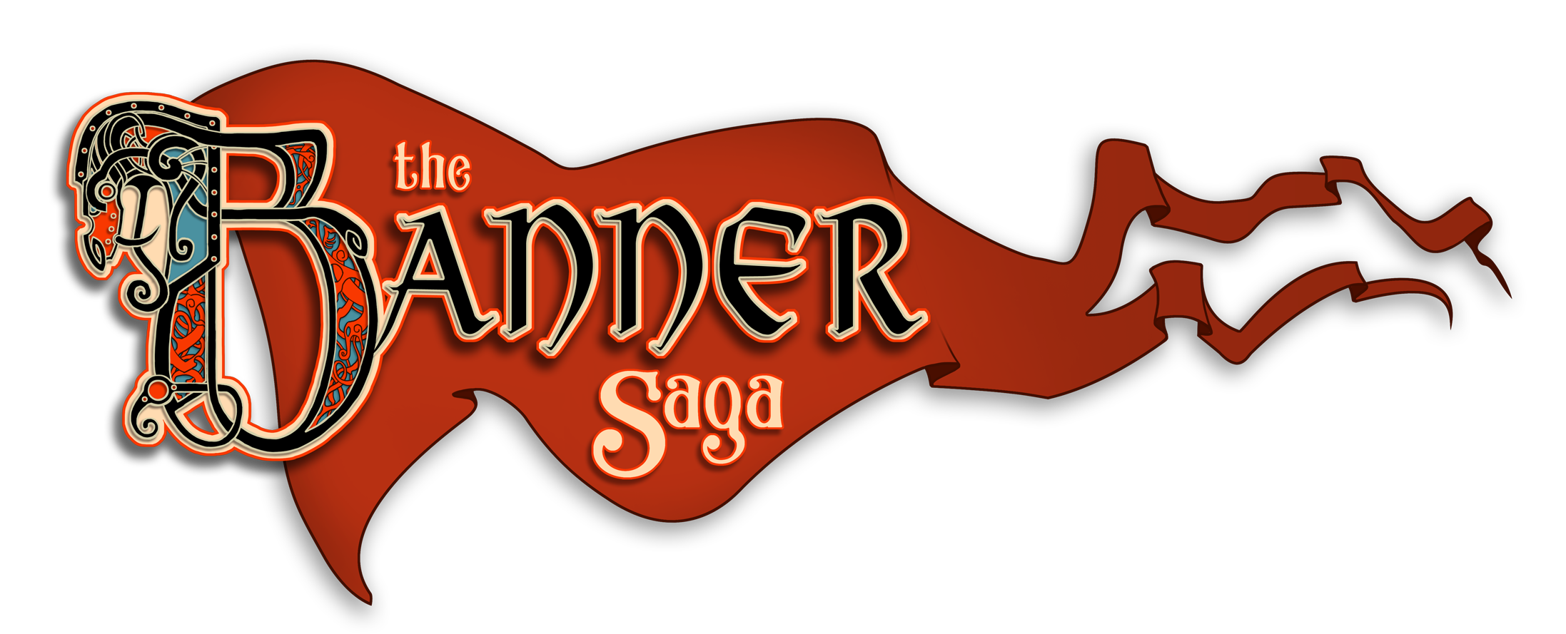 Logo of the video game The Banner Saga.